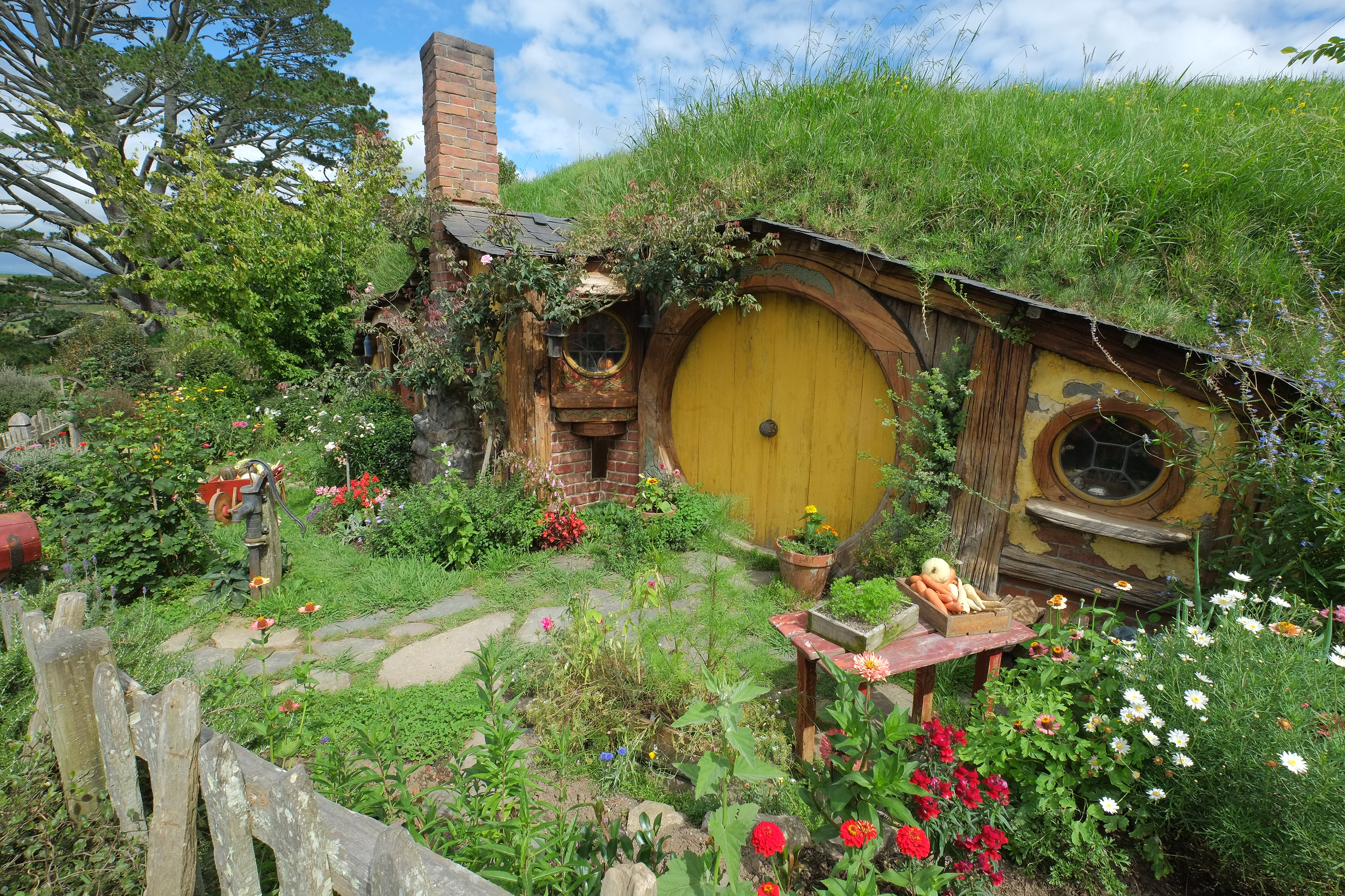 Samwise Gamgee's residence in Bagshot Row at summertime with garden in flower (Hobbiton movie set)